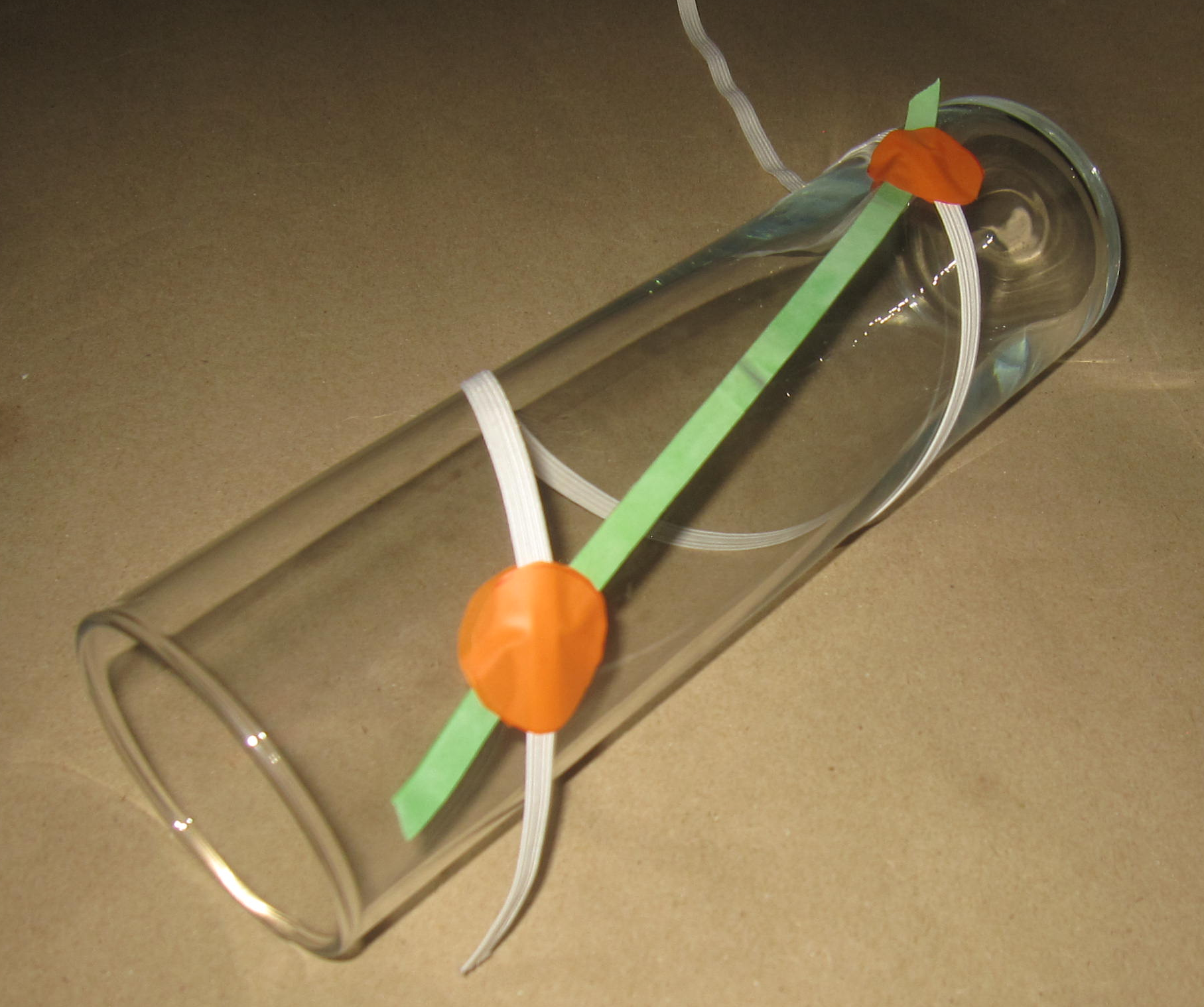 Two rubber bands attached on a cylindrical glass vase, illustrating two different geodesics on the surface. The green one provides the shortest path between the orange dots, while the white one does not.